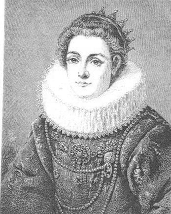 Anonymous. Lady Anna Mackenzie, Countess of Balcarres and afterwards Argyle (1621? – 1706?). c 1868. Engraving.